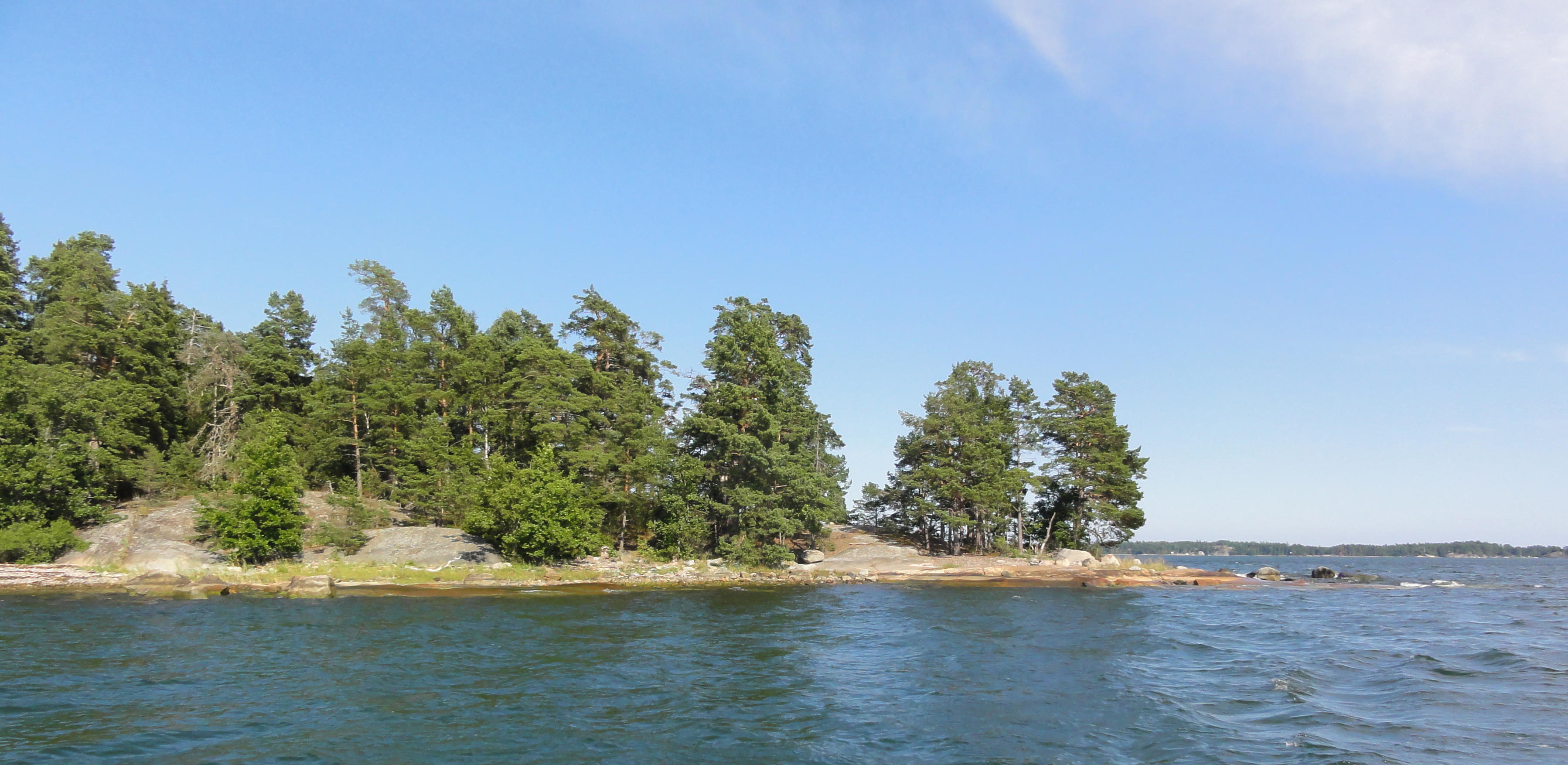 Varnäset, beak that used to house beacon fire as part of protective signal system